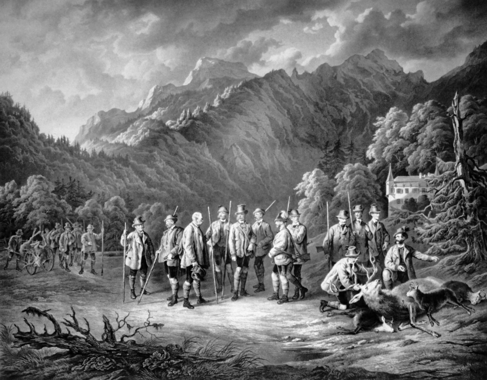 Franz Josef I. (1830-1916), Kaiser von Österreich, König von Ungarn. In einer Jagdgesellschaft am Ofensee. Lithographie von Josef Kriehuber, 1864